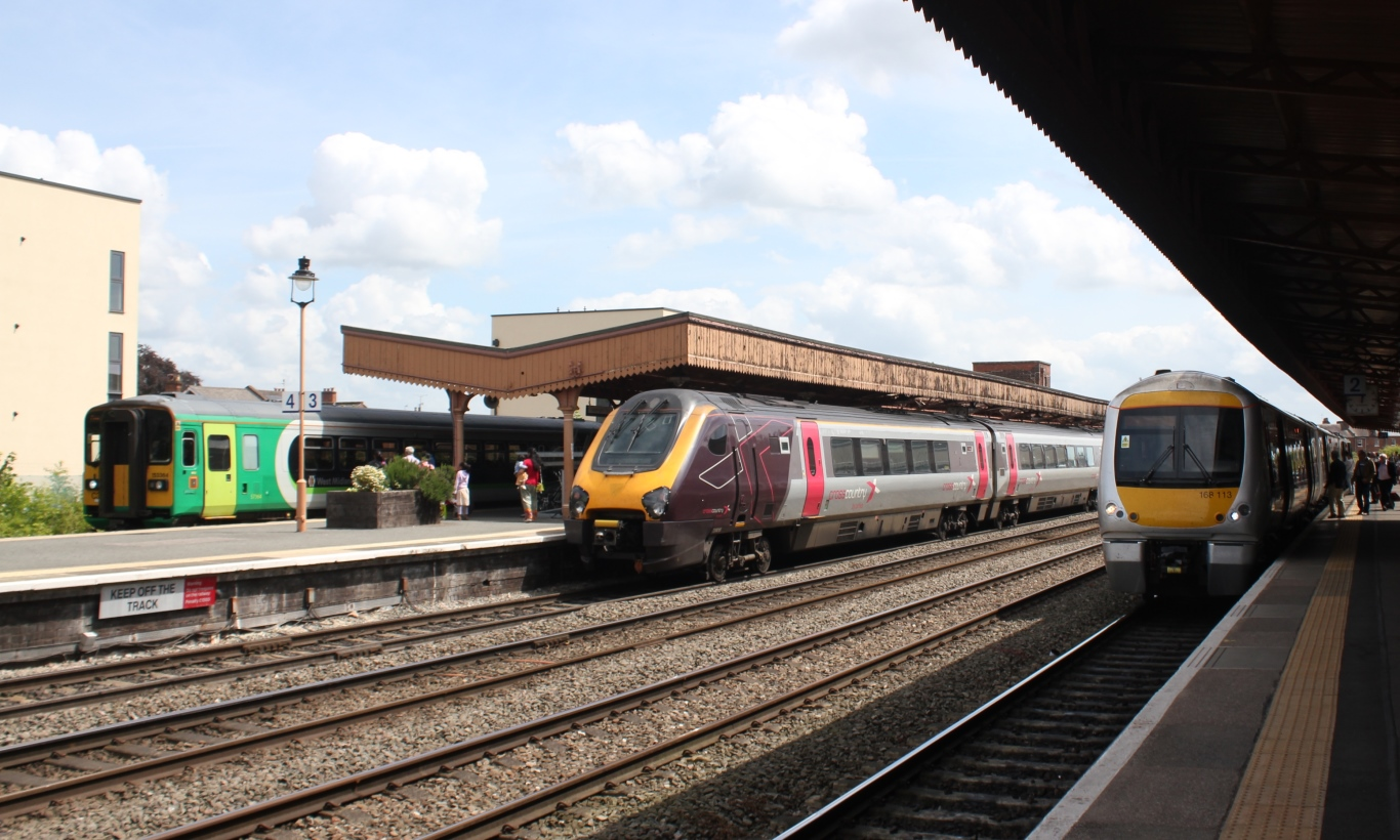 A variety of trains on different routes at Leamington Spa. In the centre of the picture is 'Voyager' 220015 working a CrossCountry service from Edinburgh to Reading. On the left is West Midlands Railway's 153364 going to Coventry, and on the right is a Chiltern railway service from London Marylebone to Birmingham Snow Hill formed by unit 1668113.